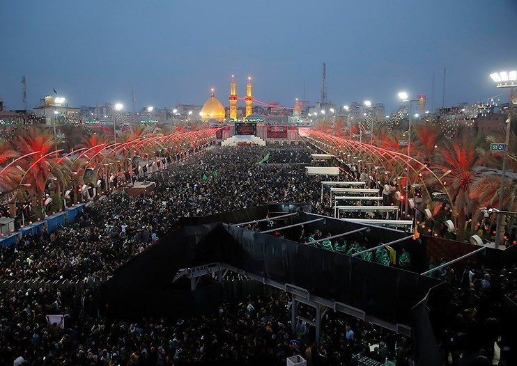 Arba'een Pilgrims in Bayn al-Harmian- November 2017